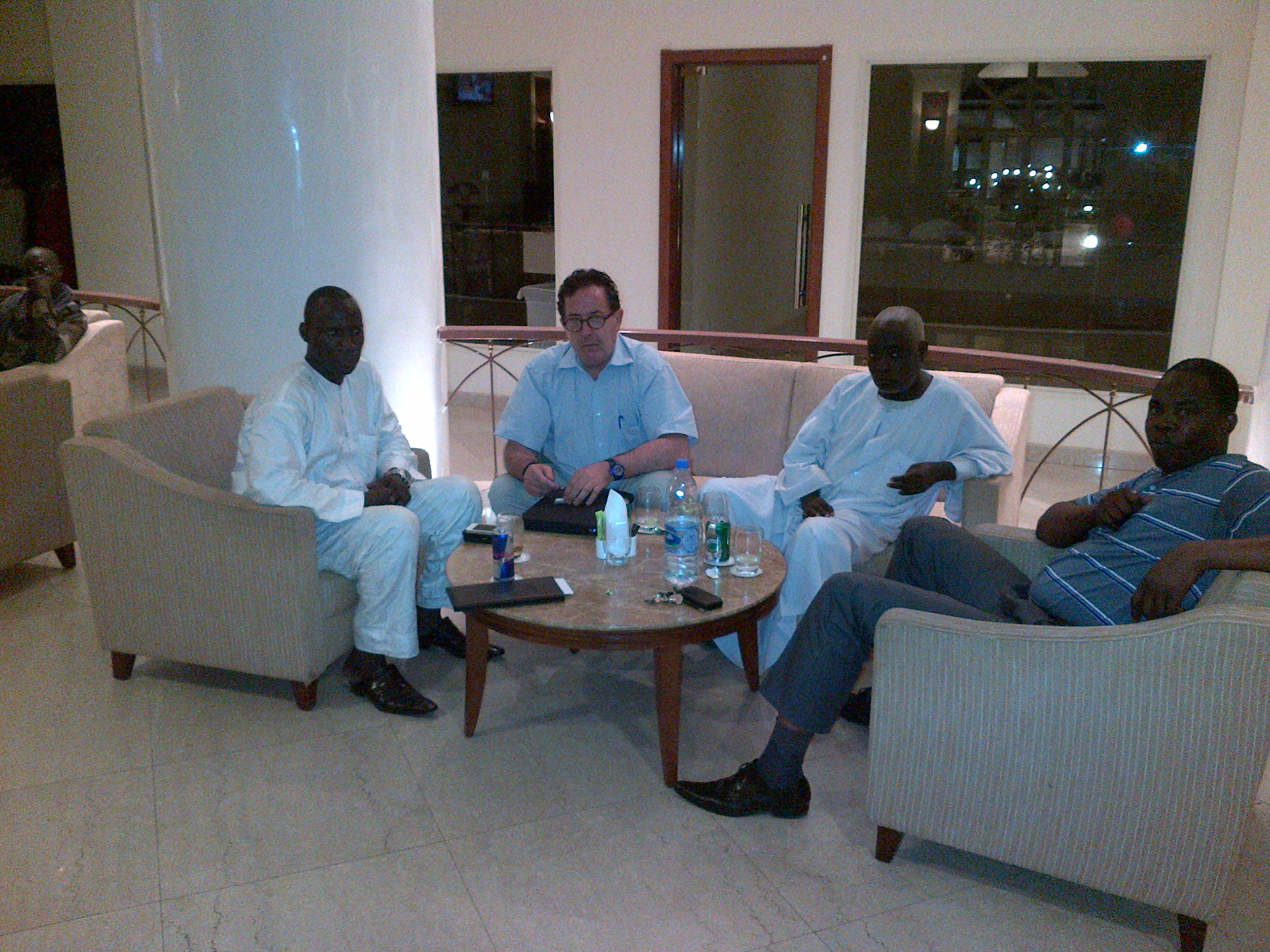 Général Noureddine Adam with Ambassador Bernard Leclerc in Bangui